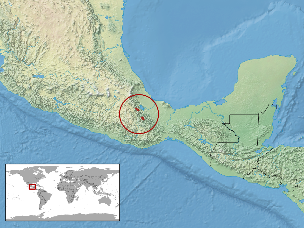 geographic distribution of Cryophis hallbergi (Native: Mexico)